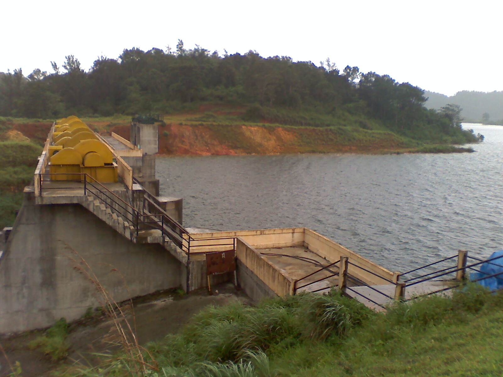 India's largest earth dam